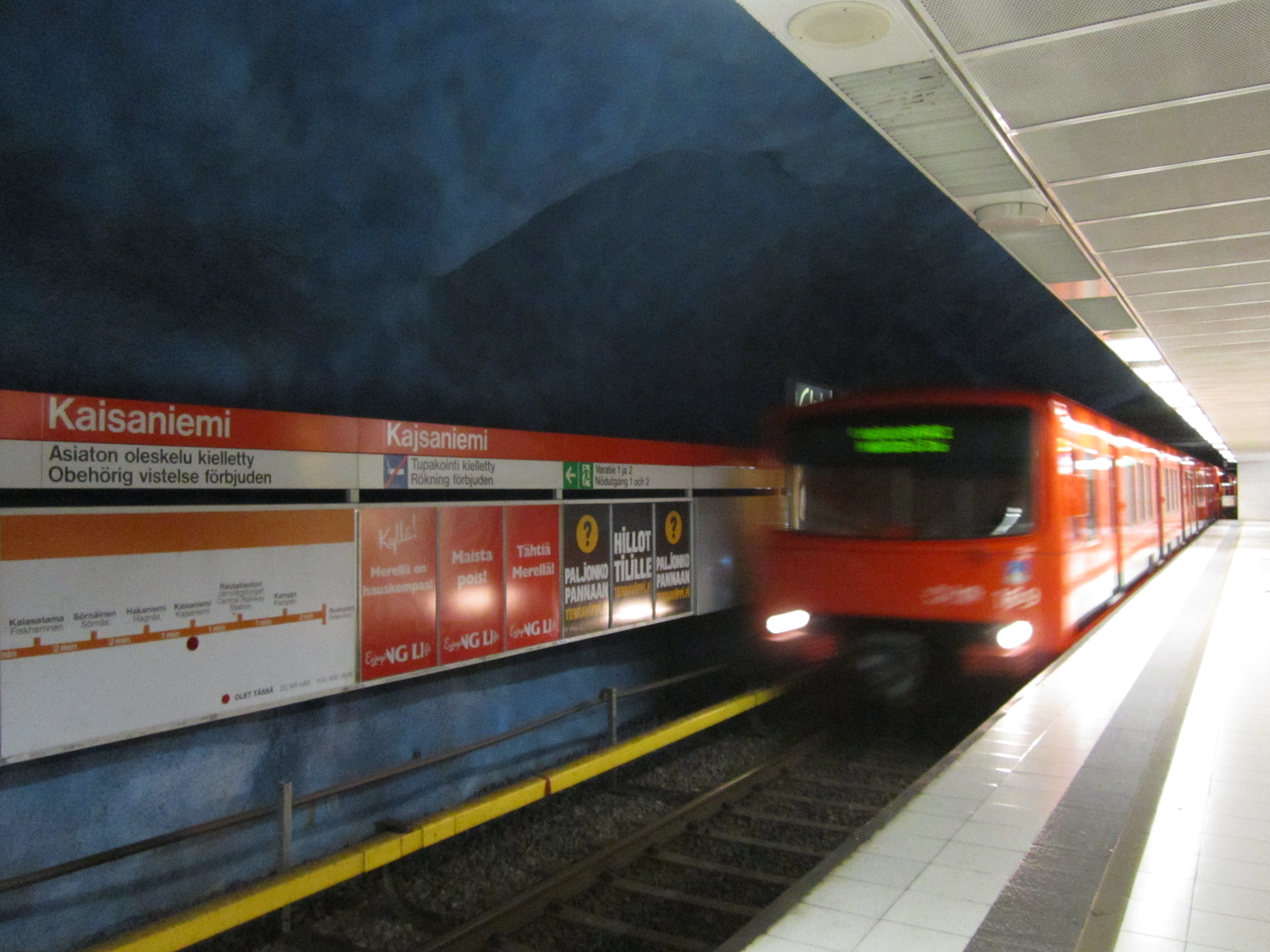 Metro arrives Kaisaniemi metro station.